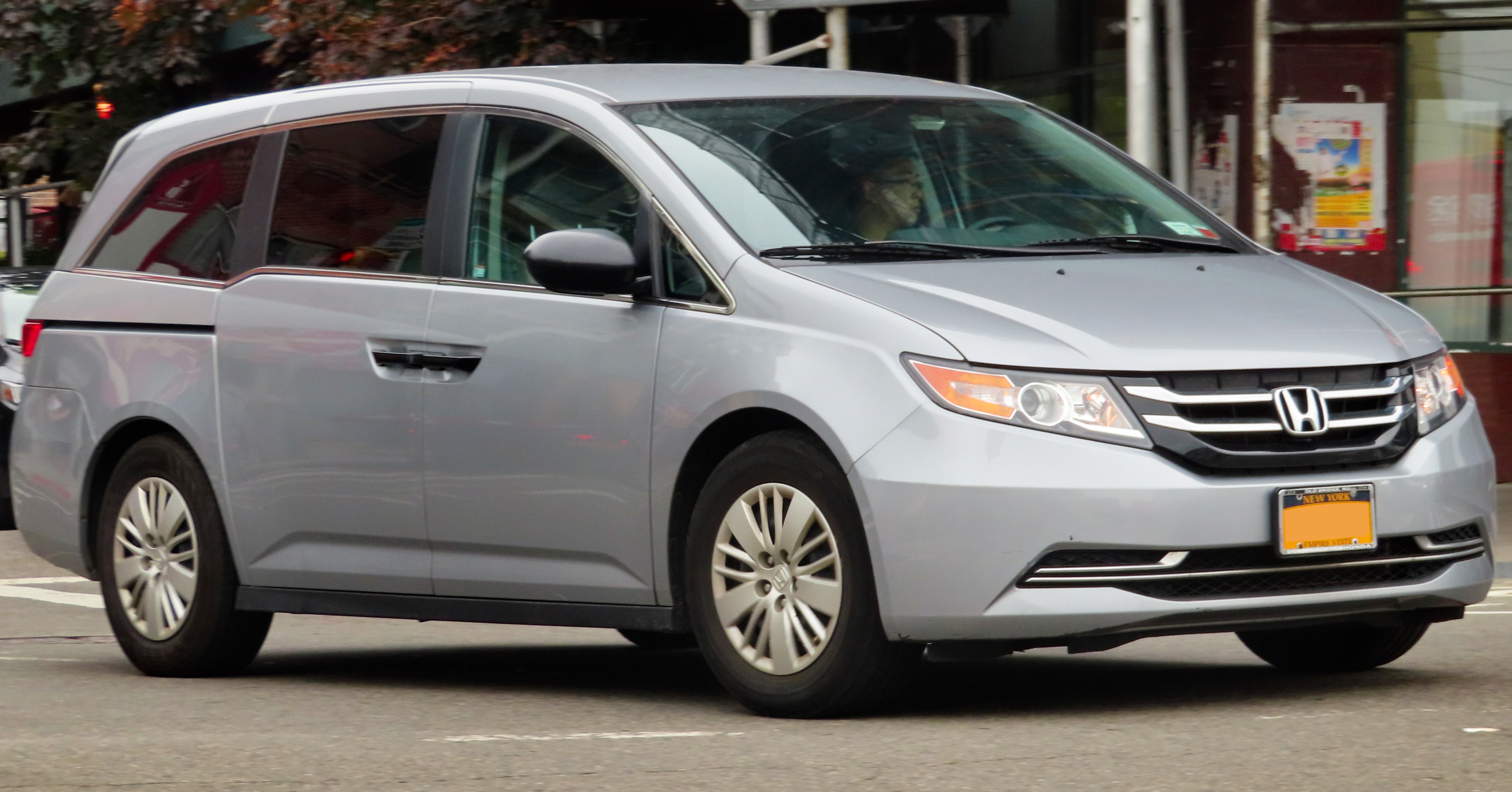 A 2016 Honda Odyssey LX photographed in Flushing, Queens, New York, USA